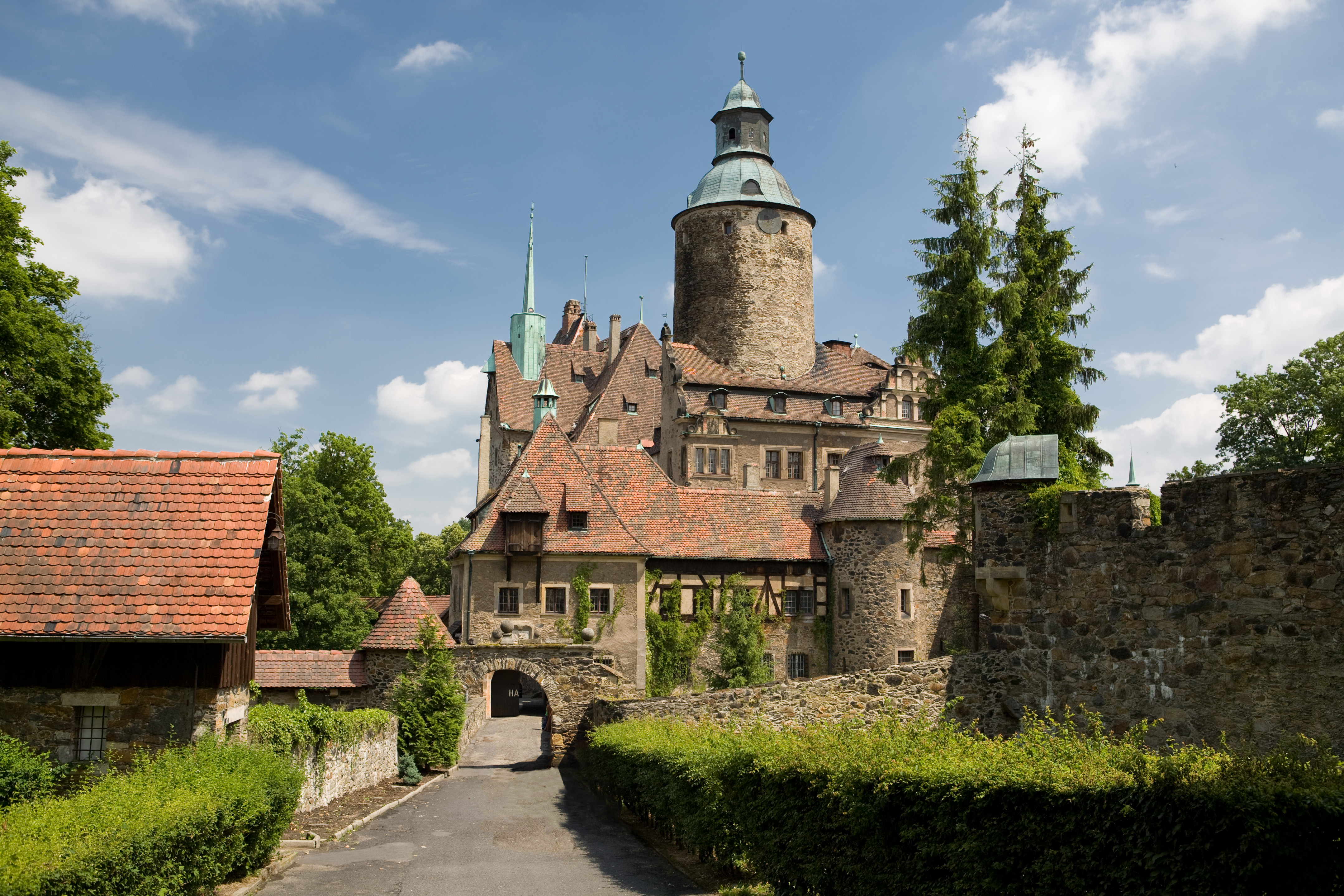 Czocha (Tzschocha) Castle, Lusatia, Poland